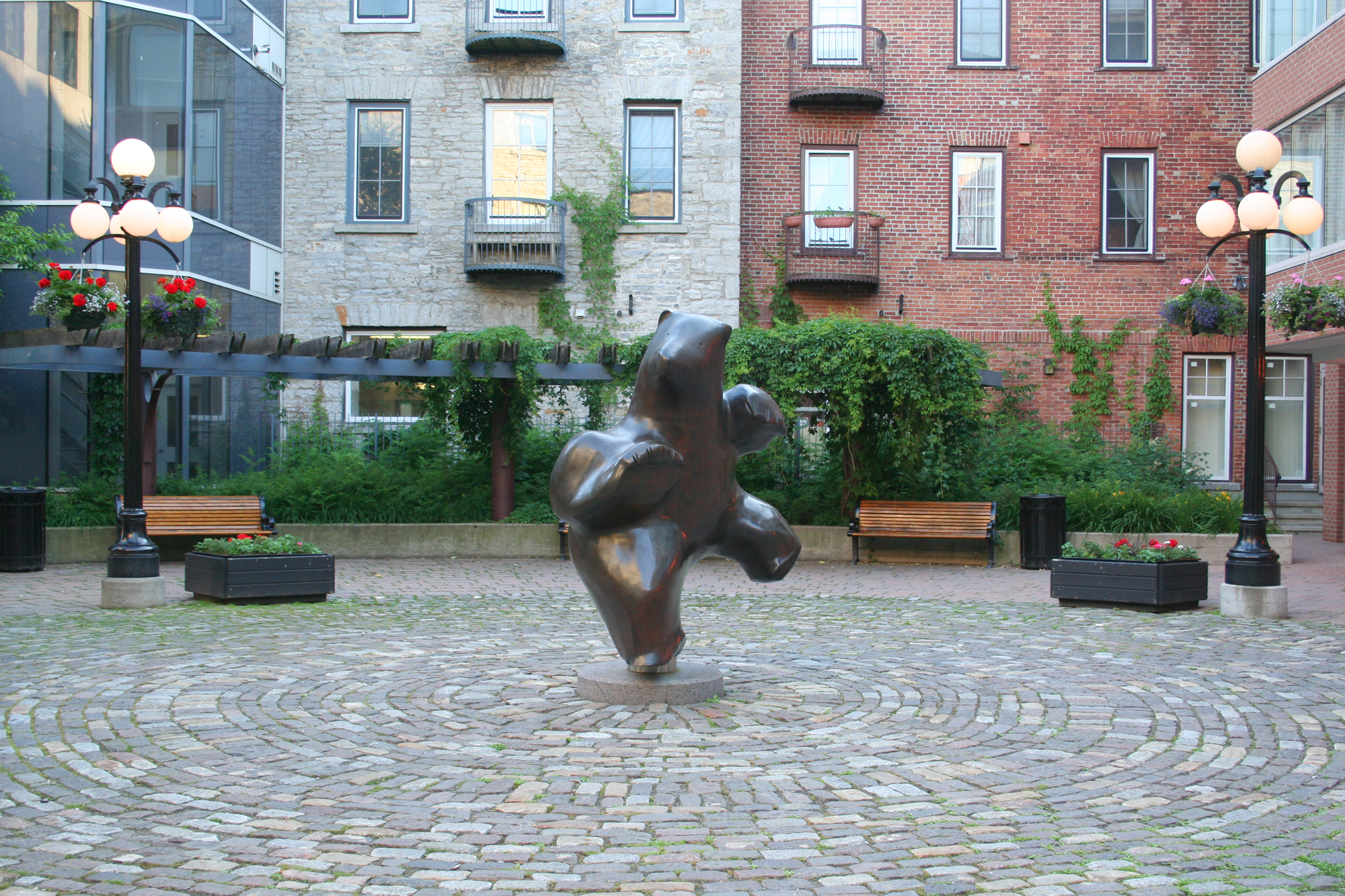 Dancing bear sculpture (1999) by Pauta Saila, an Inuit artist from Kilaparutua, Baffin Island, located in a courtyard in the Byward Market of Ottawa, Ontario, Canada.